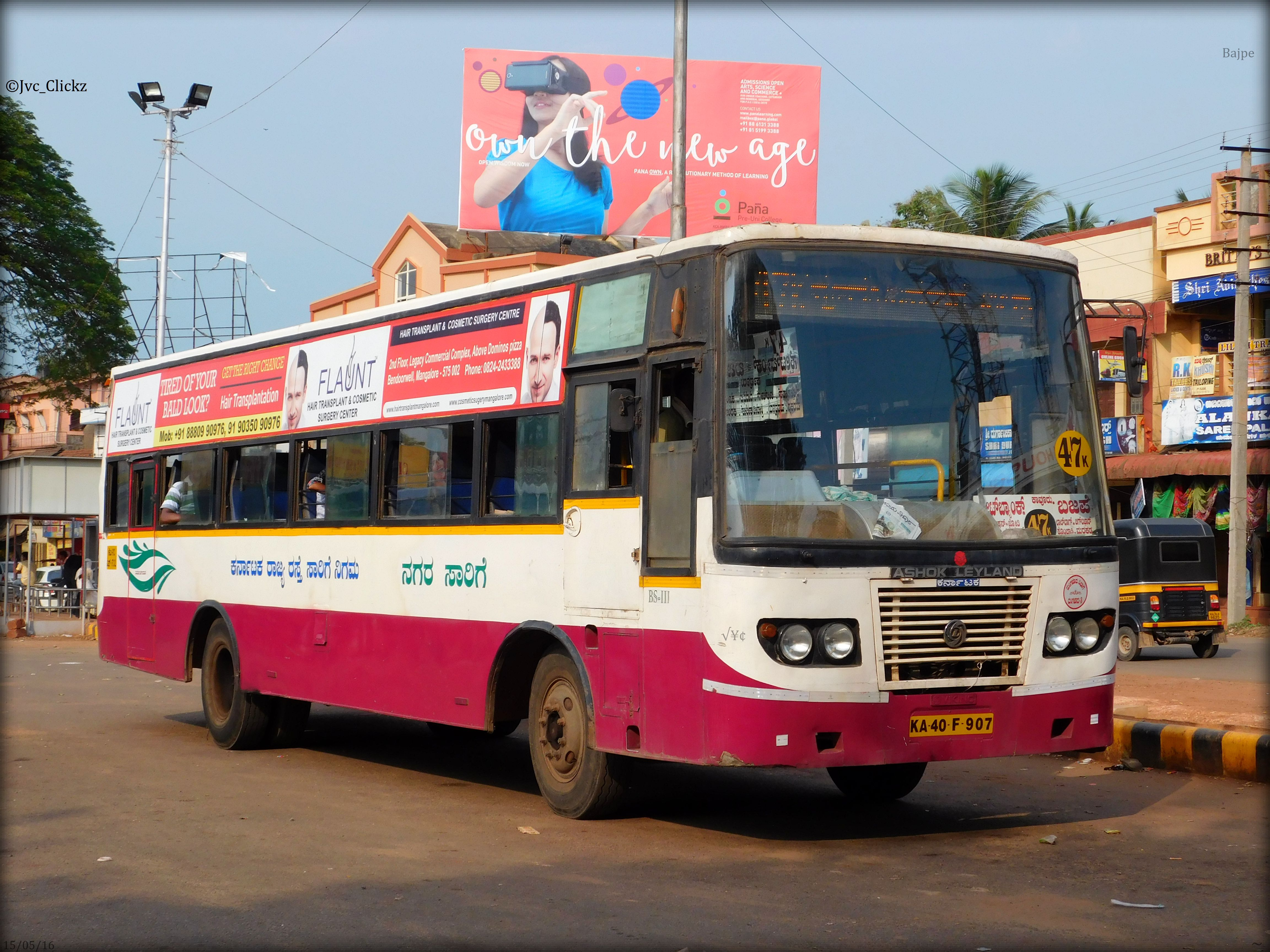 Nagara Sarige or City Transport Bus at Bajpe doing Mangalore State Bank - Bajpe built on Ashok Leyland Chassis.